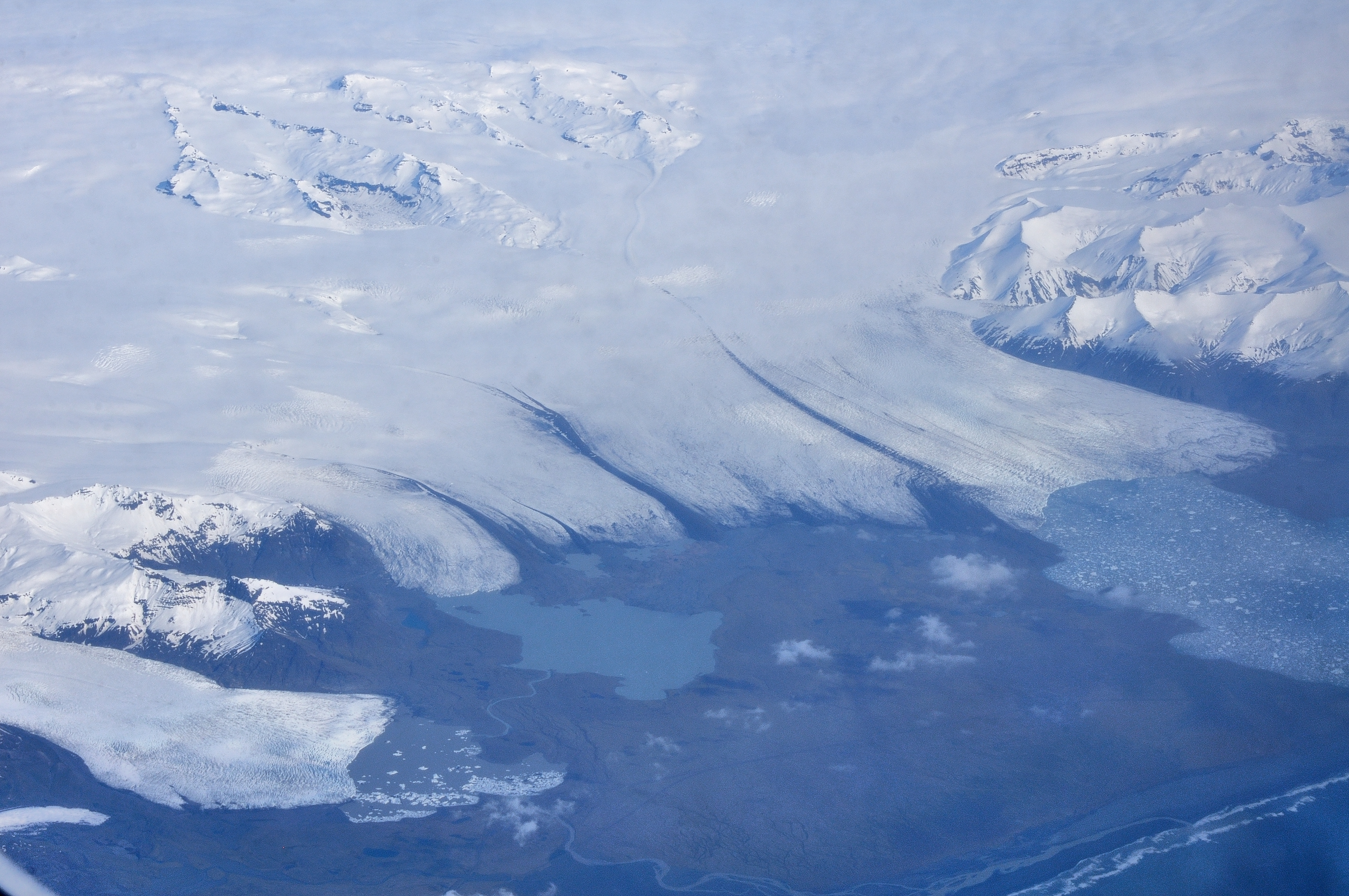 Iceland, picture take during the approach into KEF, unfortunately through a pretty dirty window.